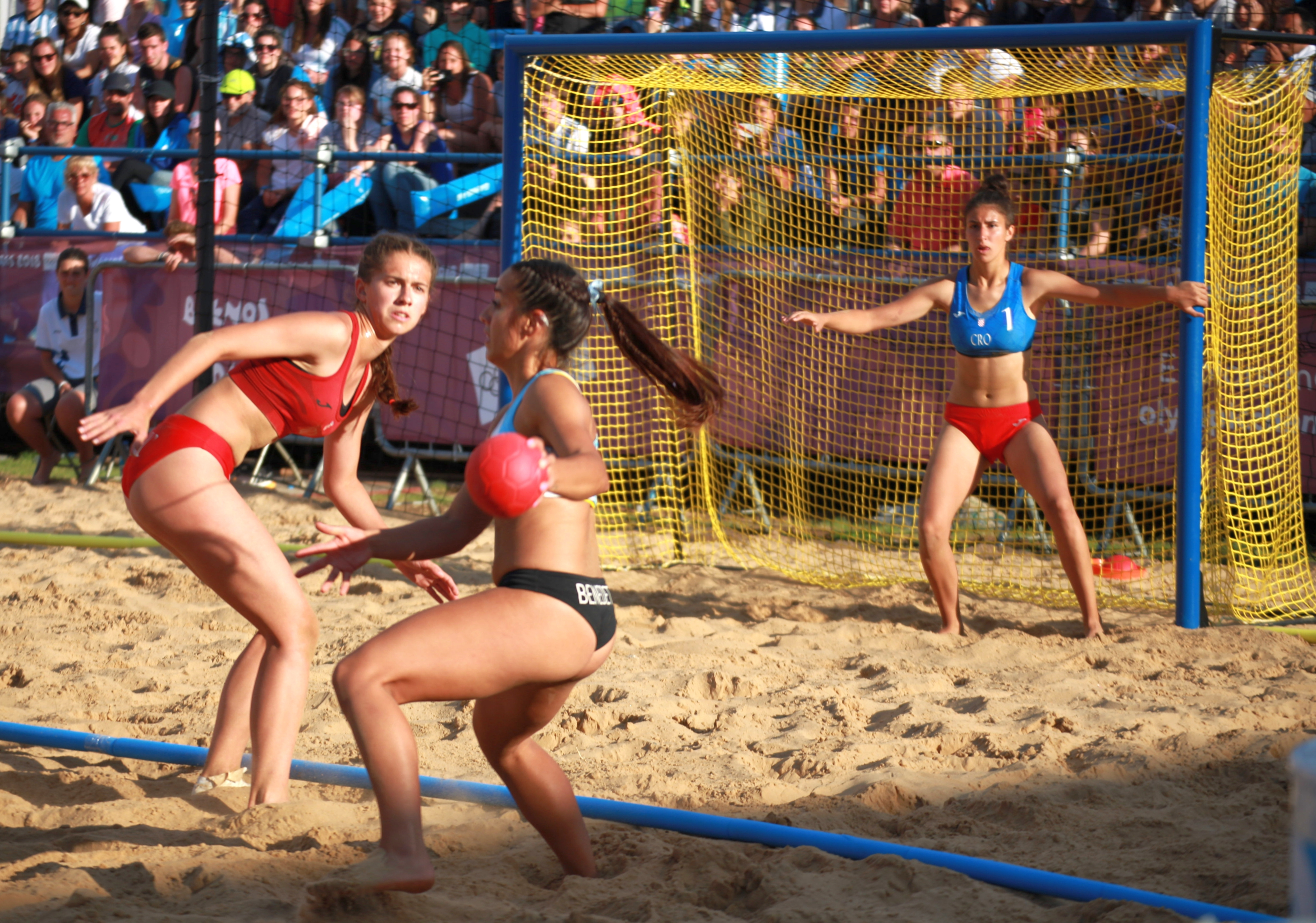 Beach handball at the 2018 Summer Youth Olympics in Buenos Aires at 13 October 2018 – Girls Gold Medal Match – Argentina-Croatia 2:0